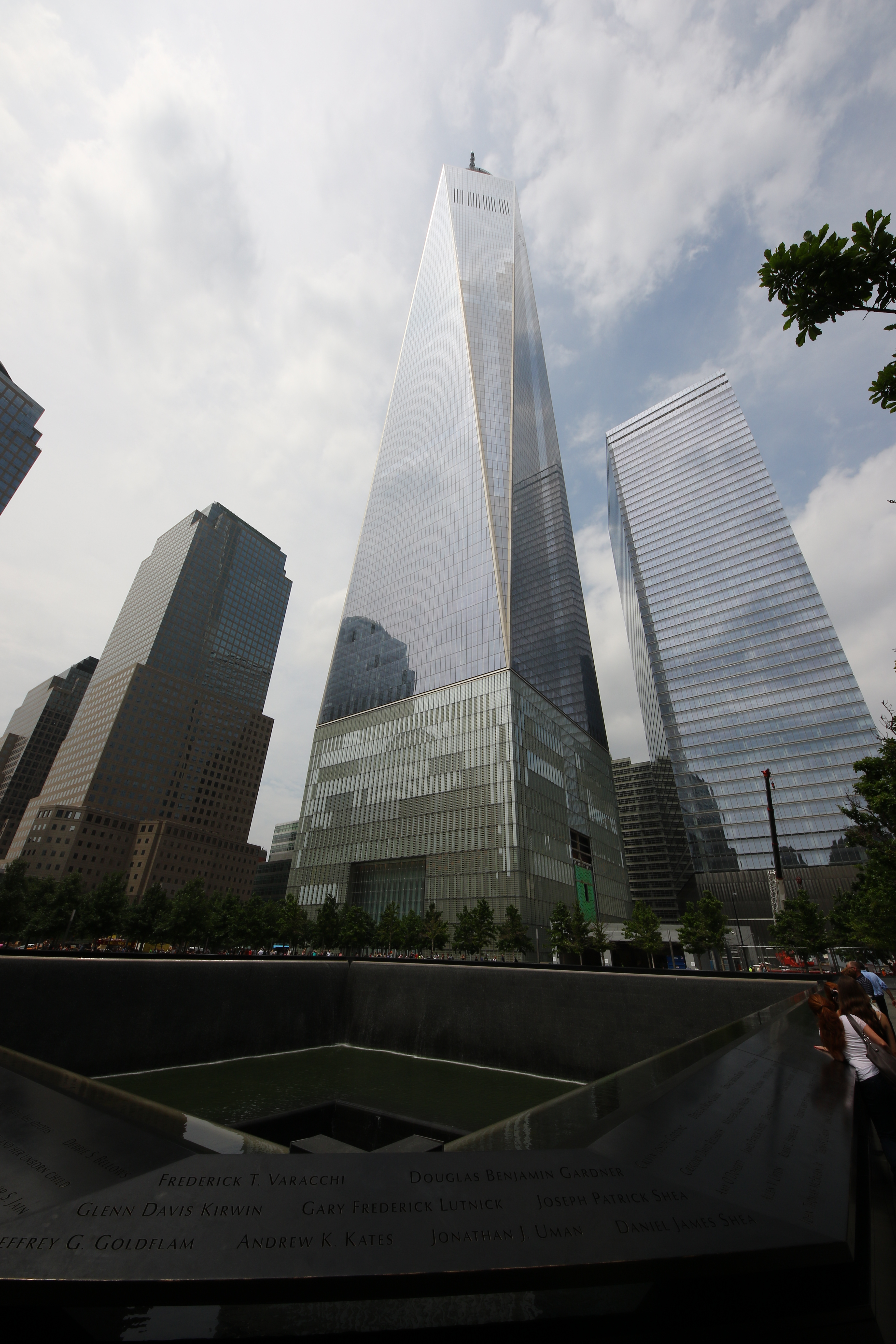 One World Trade Center and the North Pool of the w:9/11 Memorial